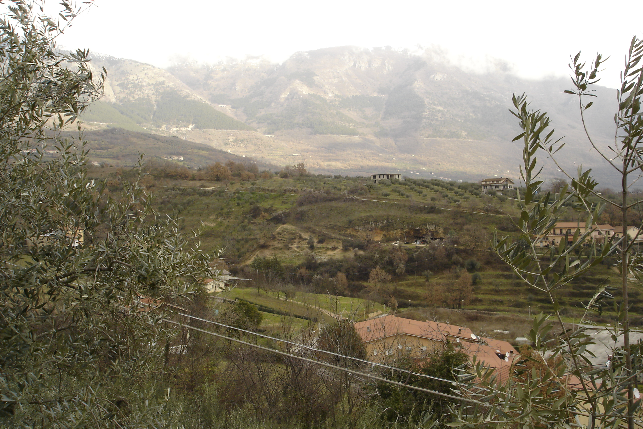 Colle della Civita (Alvito)